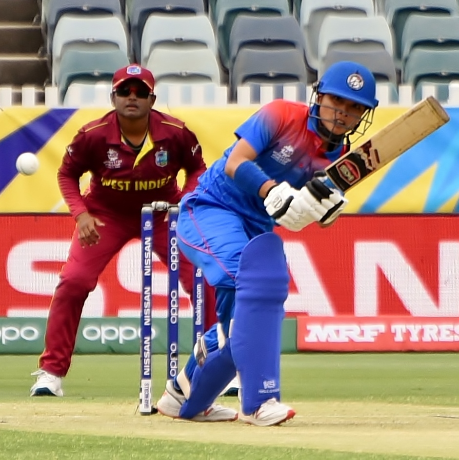 Sornnarin Tippoch batting for Thailand against the West Indies during their 2020 ICC Women's T20 World Cup match at the WACA Ground in Perth, Australia